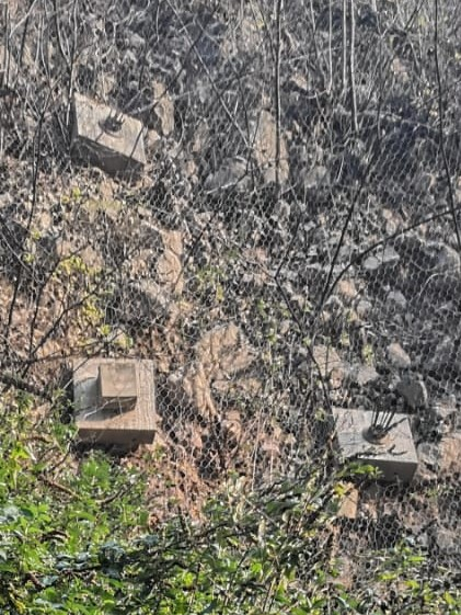 structural element in UHPFRC